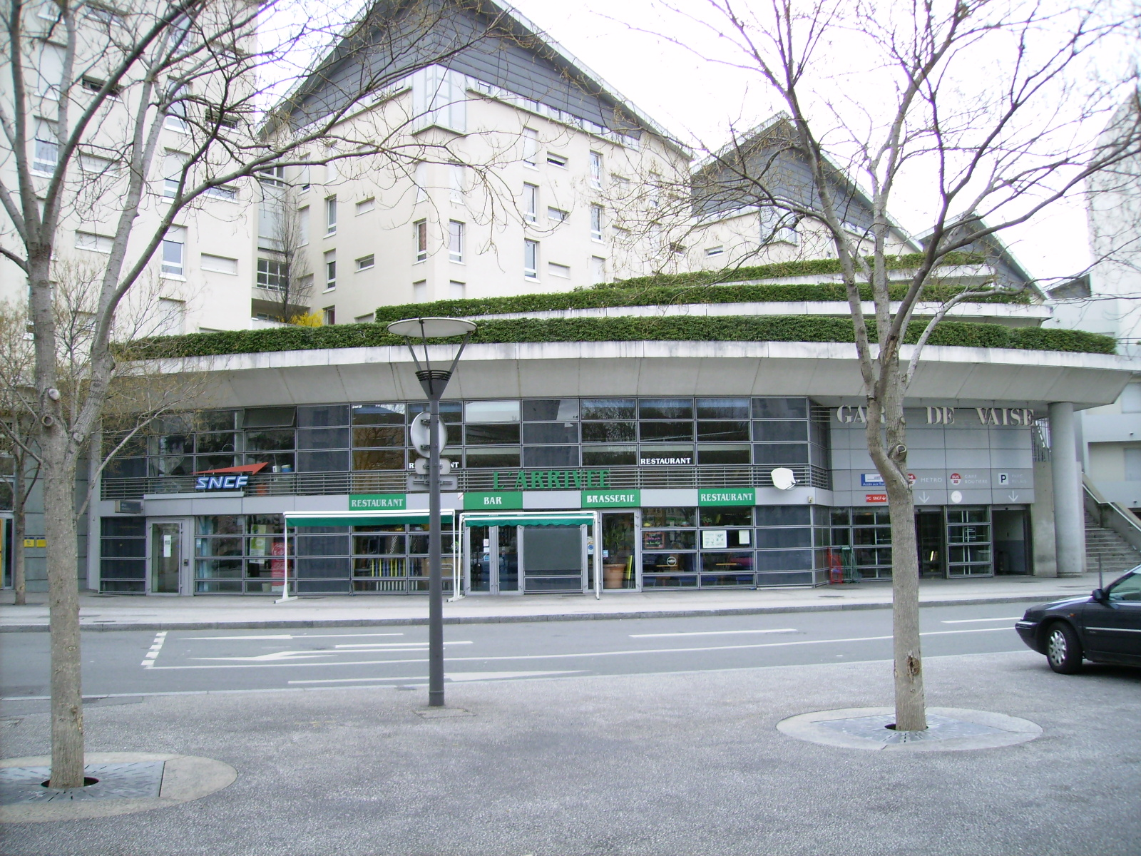 Train stations of Lyon-Vaise, entry